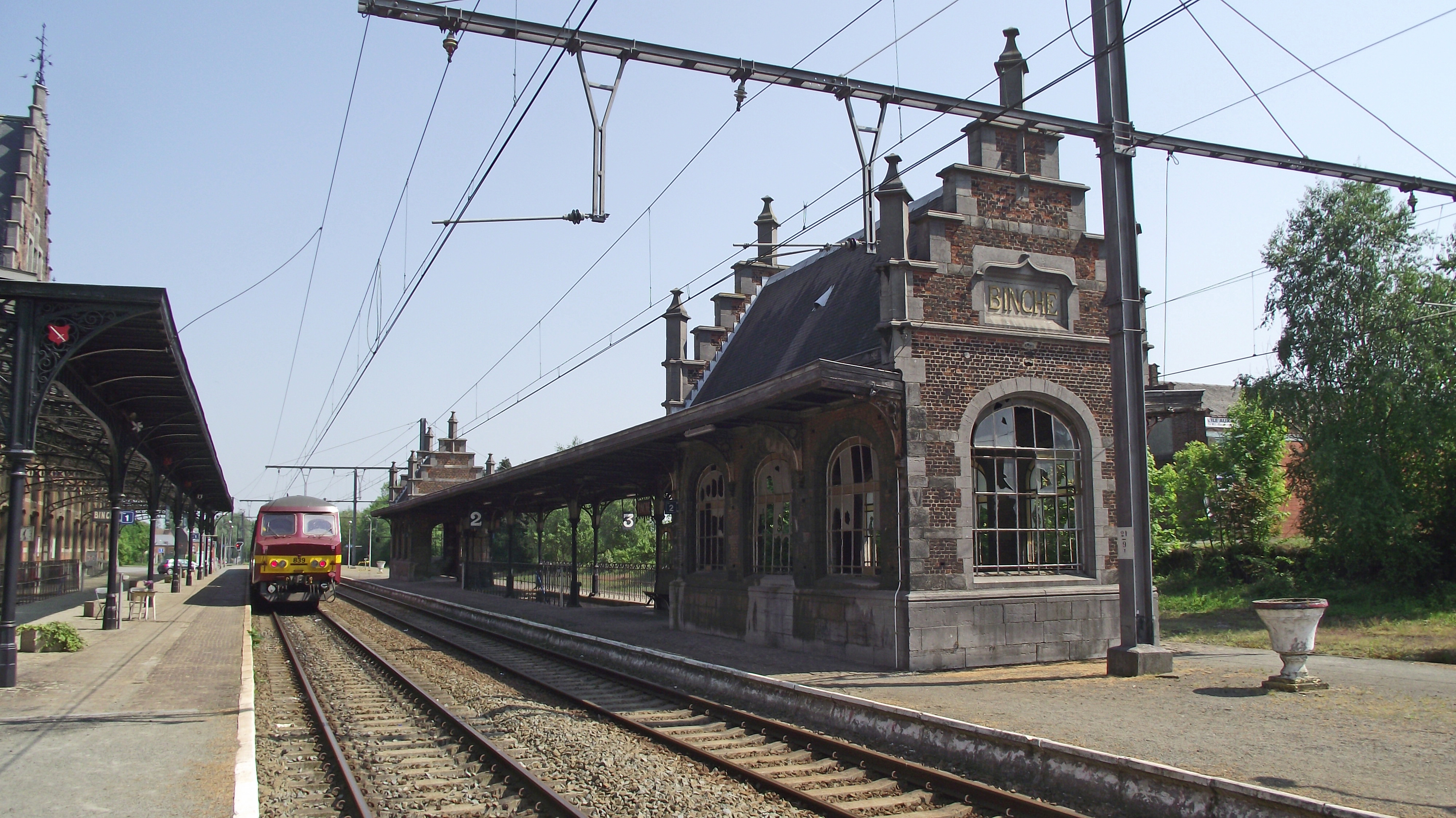 On the out of use platform there are annex buildings.